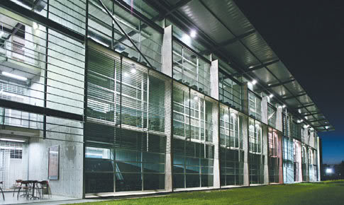 Night view of the Ignacio Umaña de Brigard building.